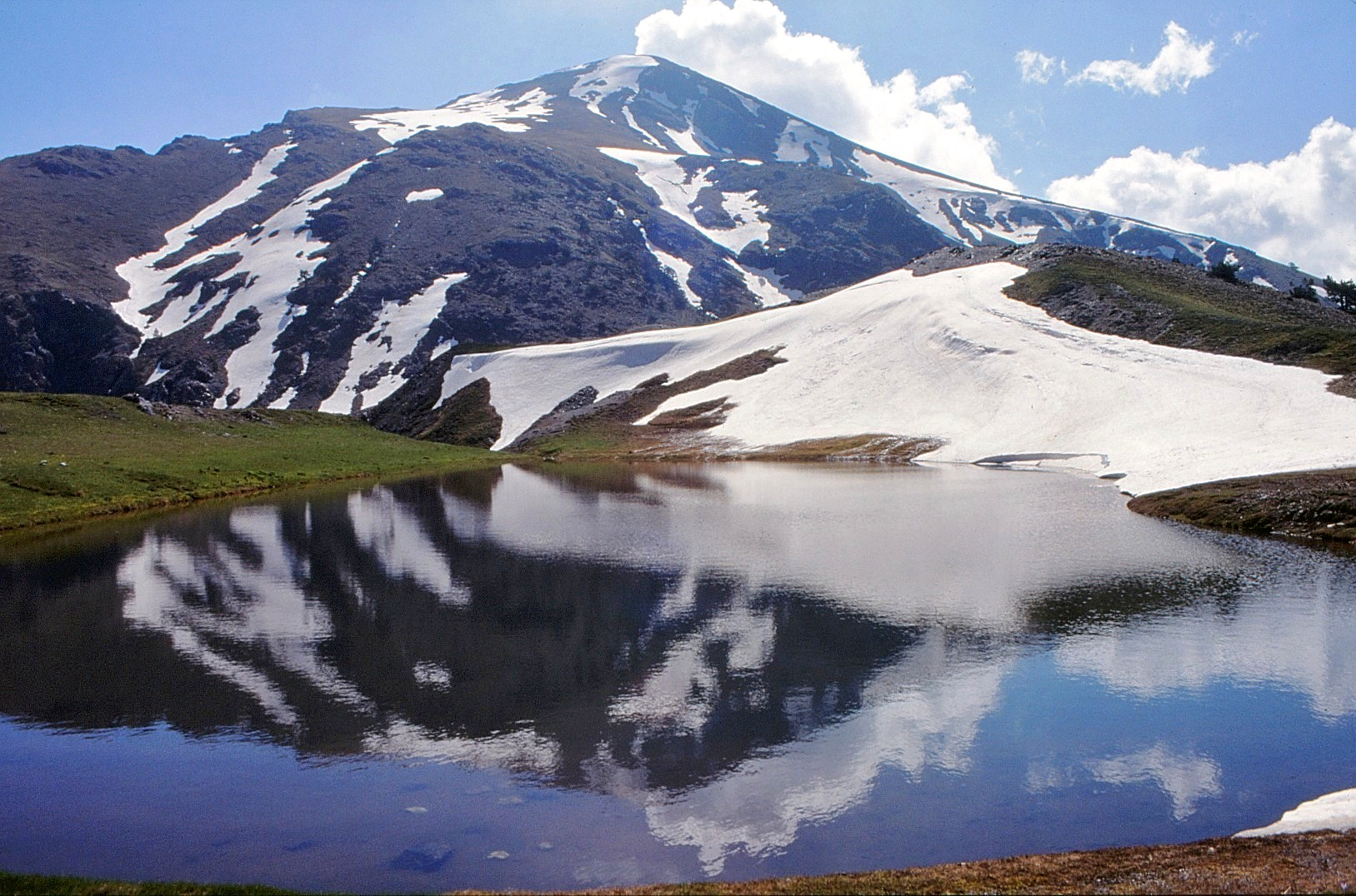 This is a photography of Natura 2000 protected area with ID GR2130002